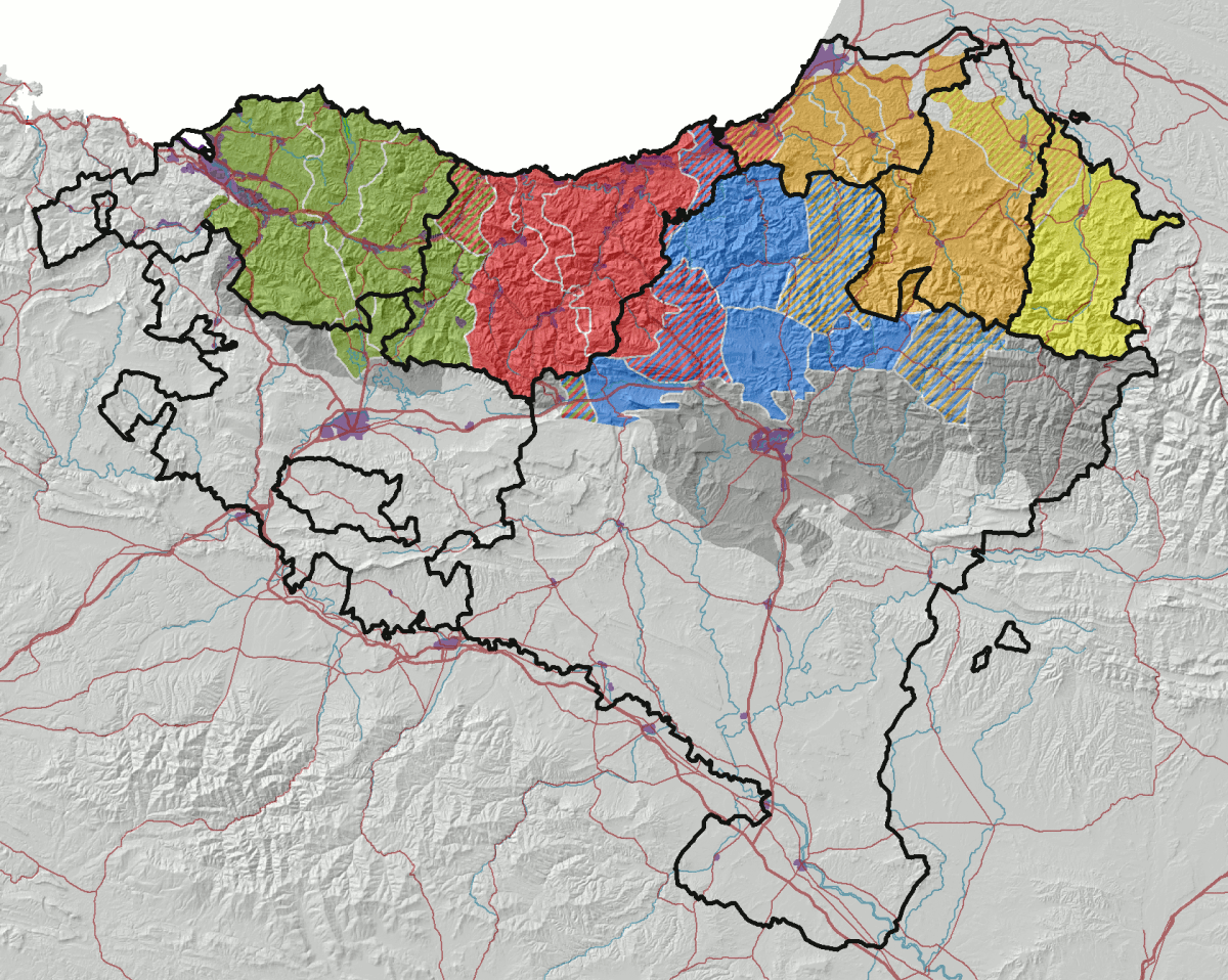 Modern map of Basque dialects, developed by Koldo Zuazo: Western dialect Central dialect Navarrese Navarrese-lapurdian Dialect of Soule Basque speaking places in the 19th century (according to Louis-Lucien Bonaparte's map)